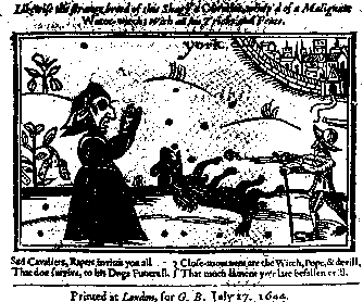 The death of Boye, Prince Rupert's dog at the Battle of Marston Moor (1644, English Civil War).